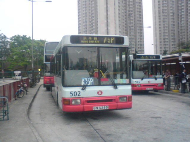 Dennis Dart in MTR